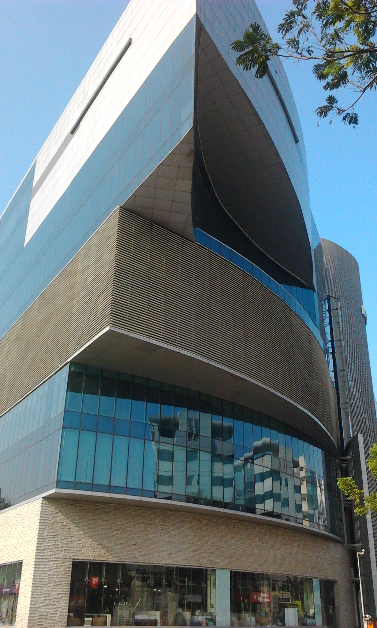 Photoed using Samsung Wave 525.